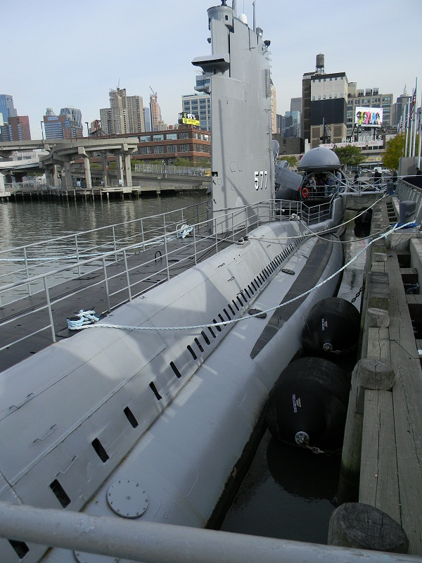 USS Growler (SSG-577), Intrepid Sea-Air-Space Museum, New York